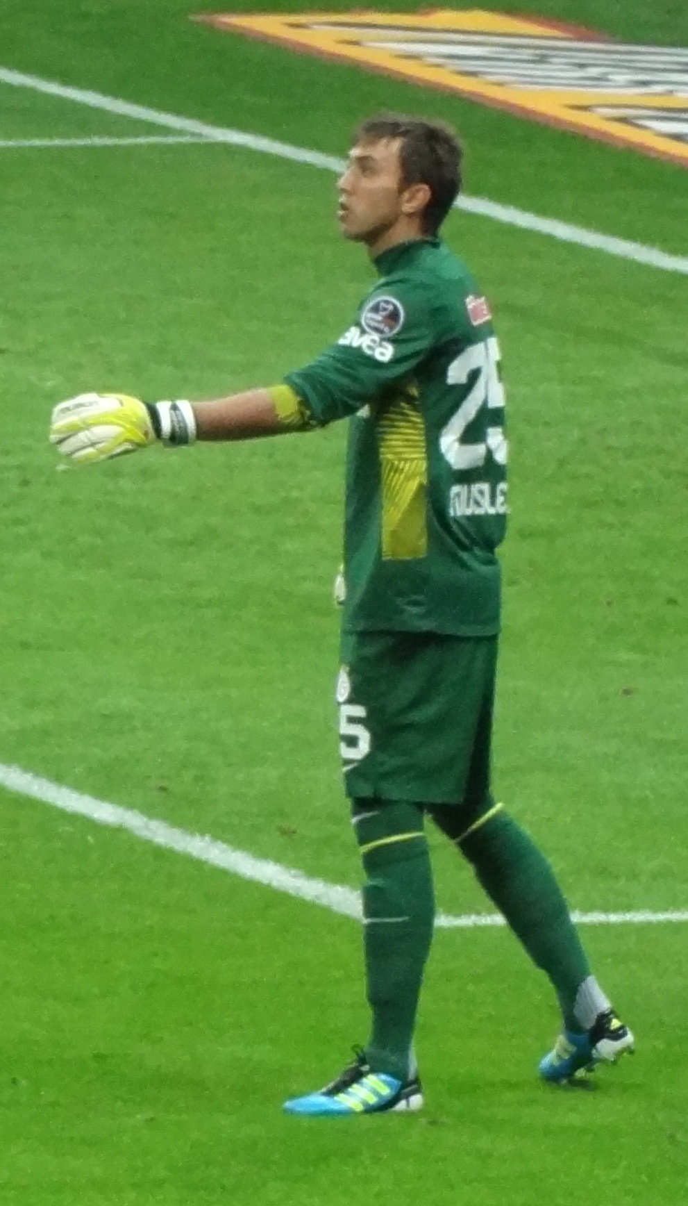 musslera was usin gk kick